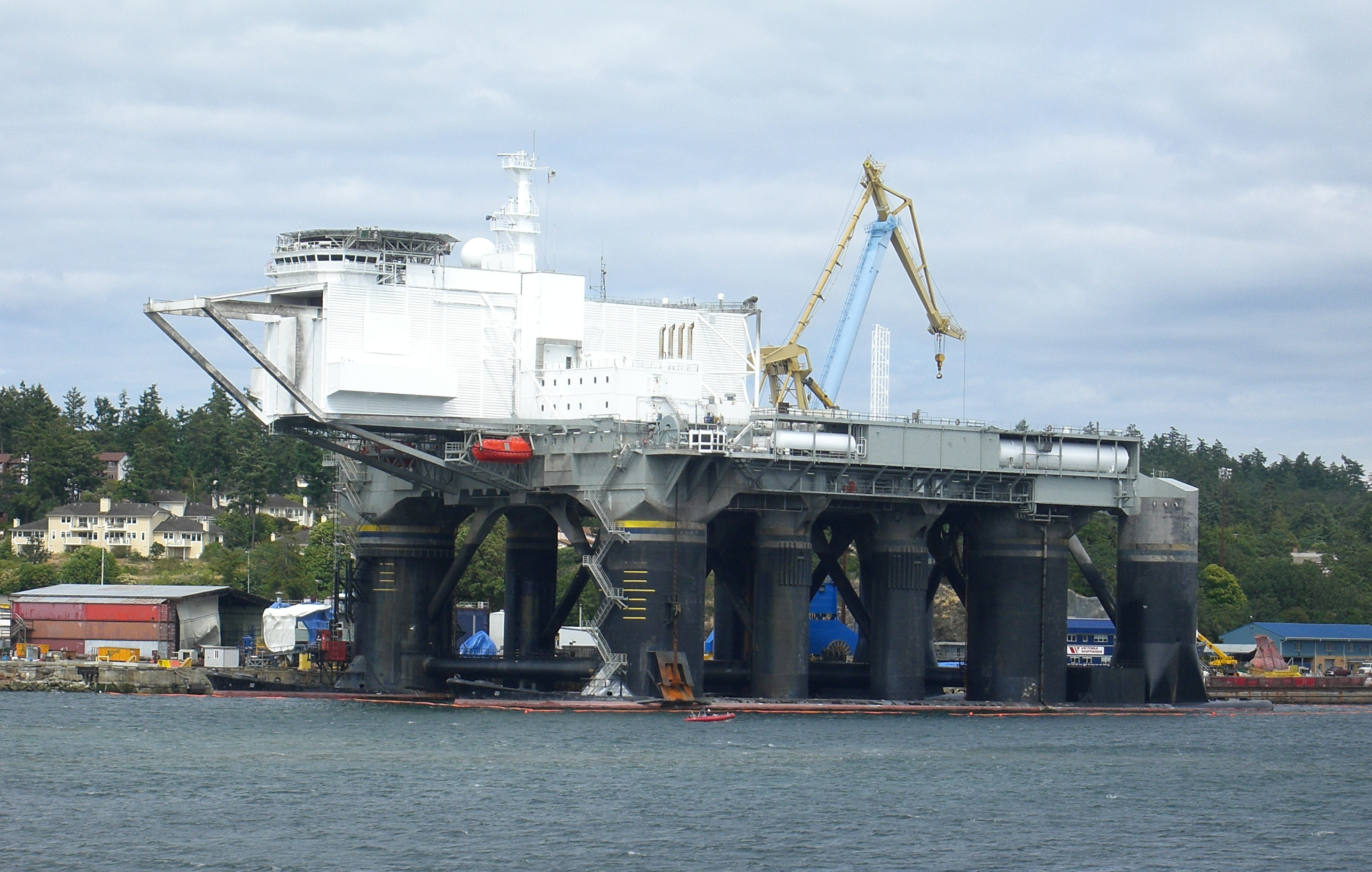 Ocean Odyssey (Sea Launch), names painted out, at graving dock, Esquimalt, BC after explosion. Photo taken from HMCS Algonquin